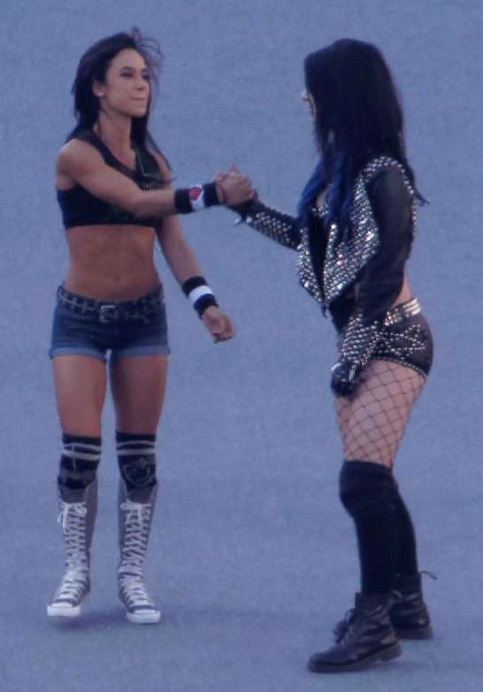 AJ Lee and Paige making her entrance to their match at WrestleMania 31.